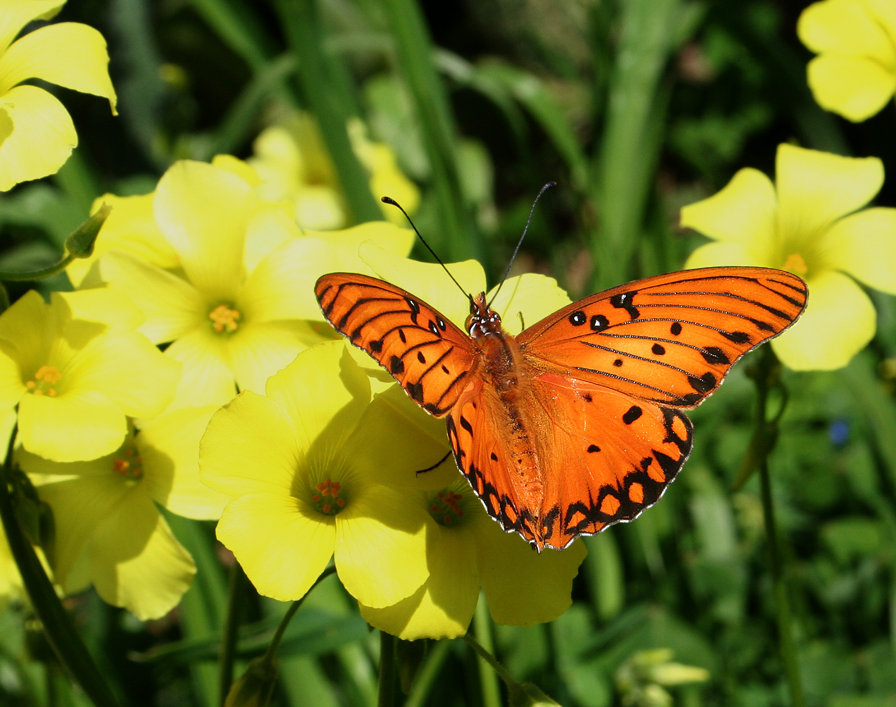 Gulf fritillary (Agraulis vanillae) found in Berkeley, California.